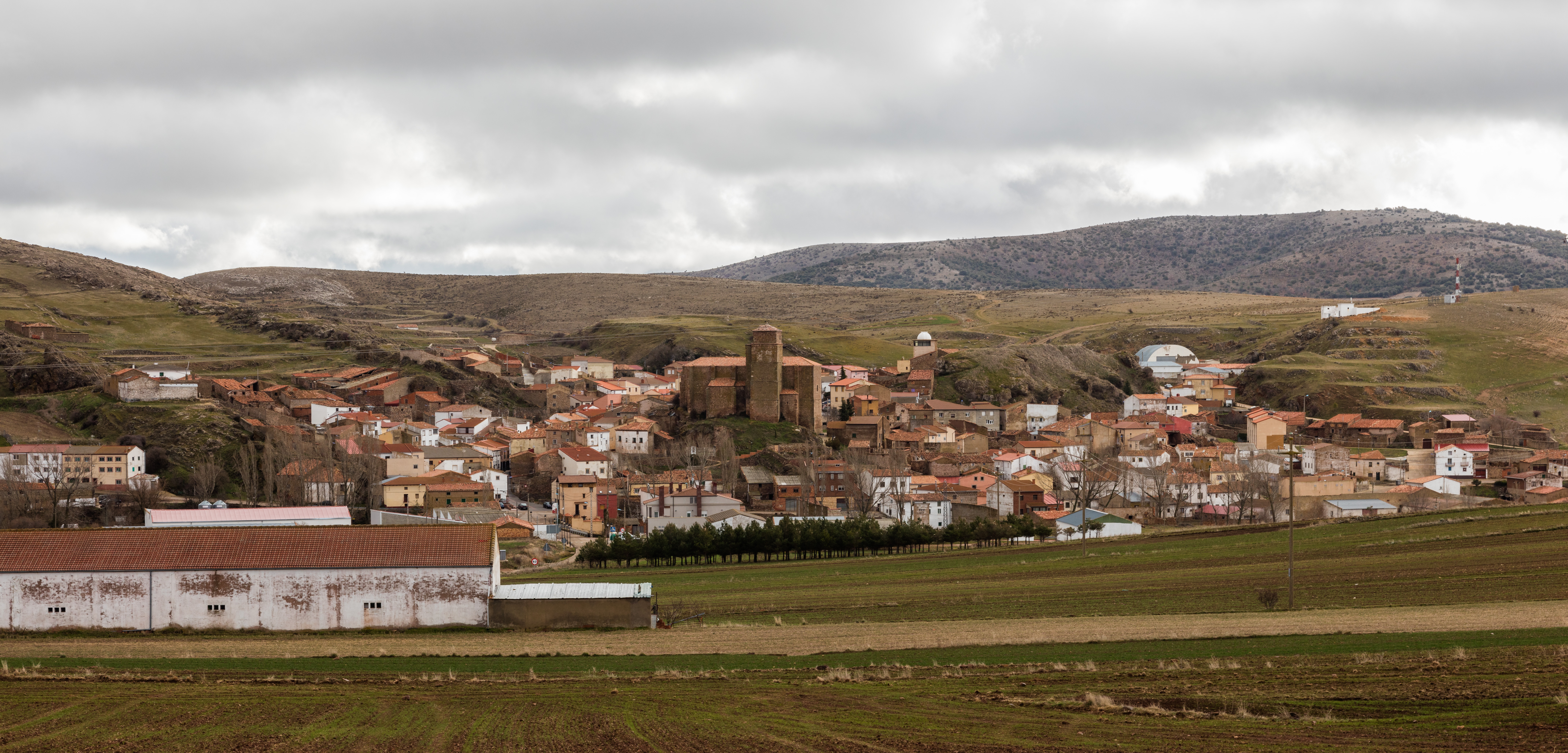 Borobia, Soria, Spain